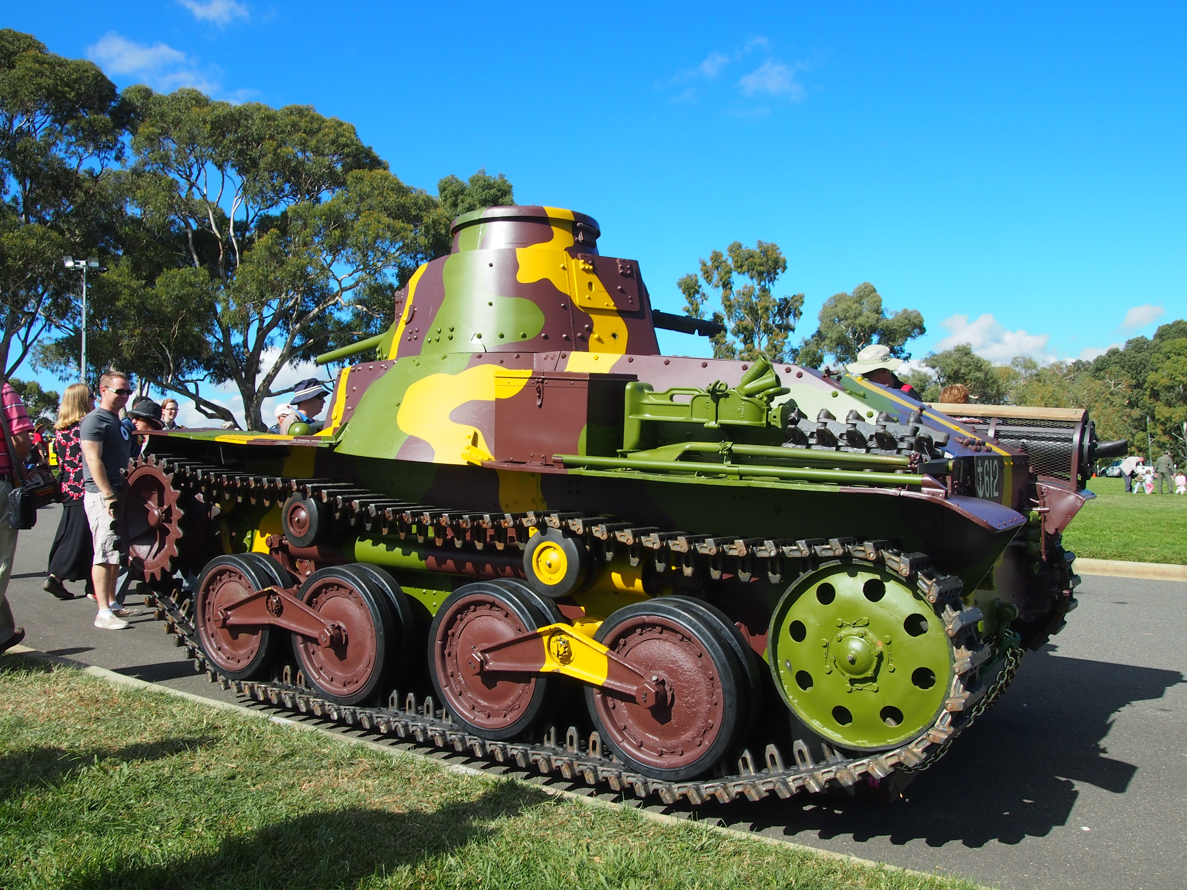 A Japanese Type 95 Ha-Go tank on display at the 2013 Australian War Memorial open day